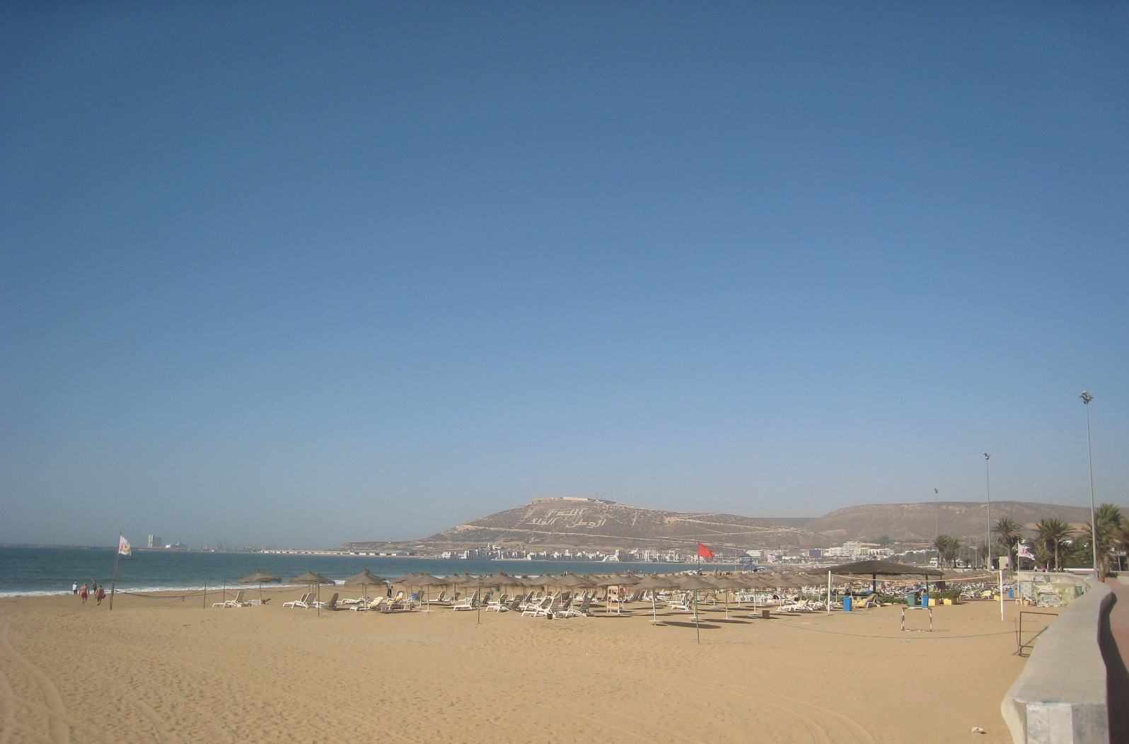 Agadir.